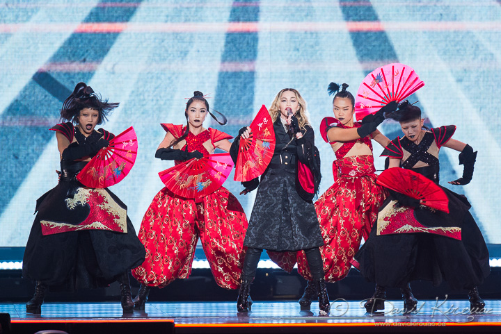 Rebel Heart Tour opening night